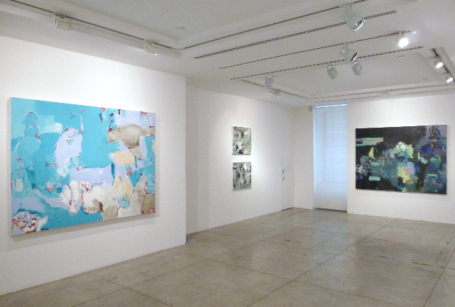 Installation view of exhibition at Jason McCoy Inc.